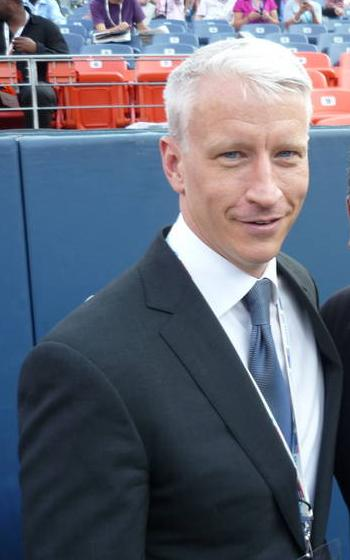 Journalist, author and television personality Anderson Cooper